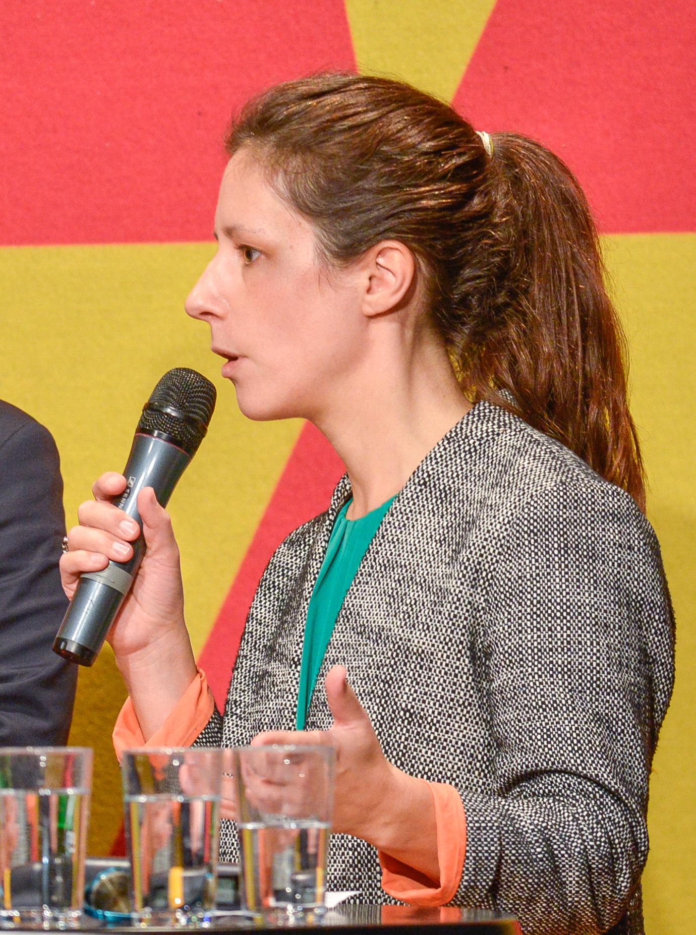 A debate match between the country's two major thinkers at Kulturhuset-Stadsteatern in Stockholm 2014. From Timbro: Lars Anders Johansson, Maria Eriksson, Adam Cwejman, Stefan Fölster.